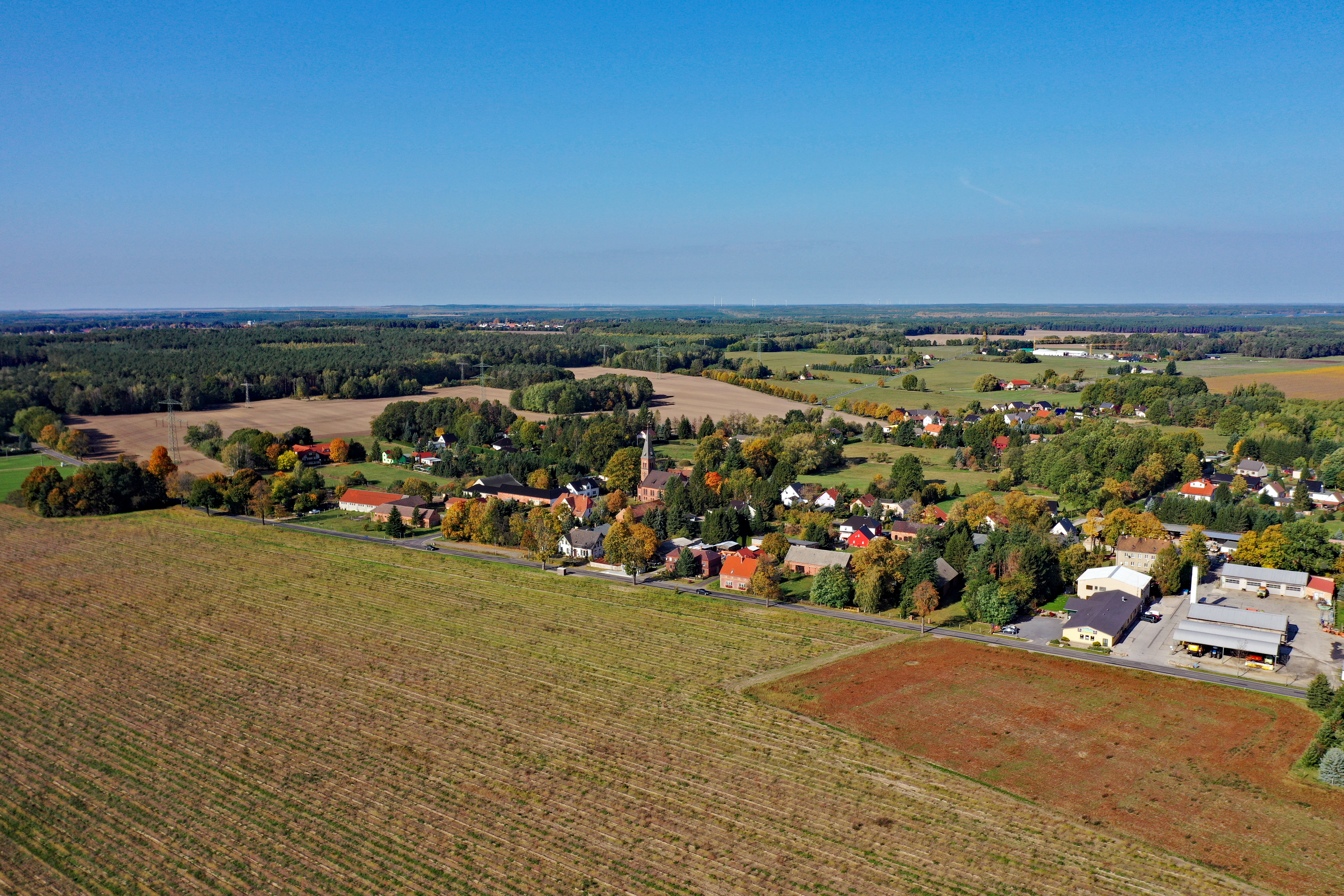 Groß-Luja (Spremberg, Brandenburg, Germany) Hornjoserbsce: Powětrowy wobraz Łojowa pola Grodka